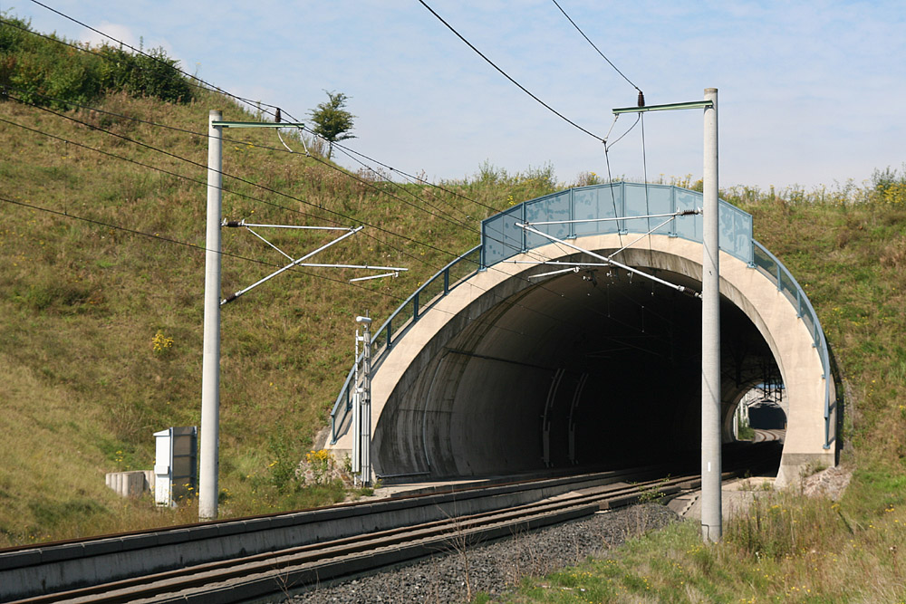 Kluse Tunnel on the Cologne-Frankfurt high-speed rail line